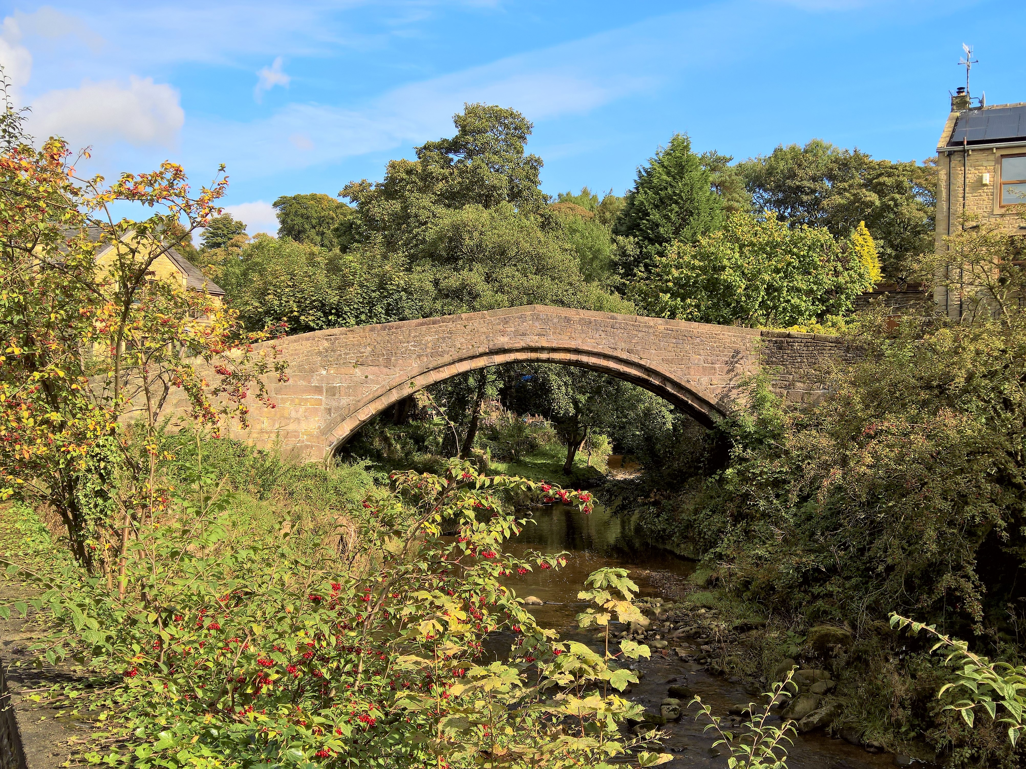 Higherford Old Bridge in September 2017.